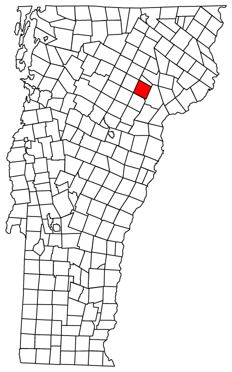 Map of Vermont towns with Walden highlighted